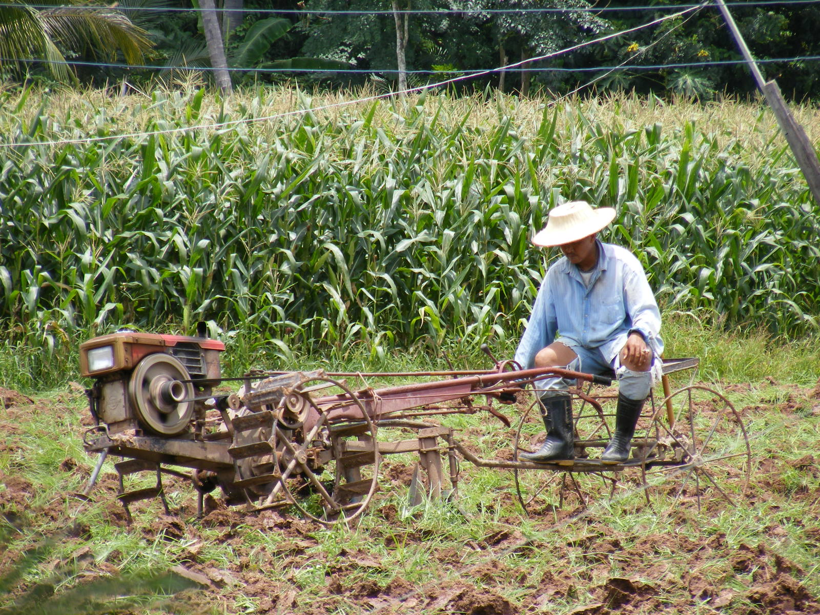 Man working in a ricefield.Location: Uttaradit Province, Thailand.